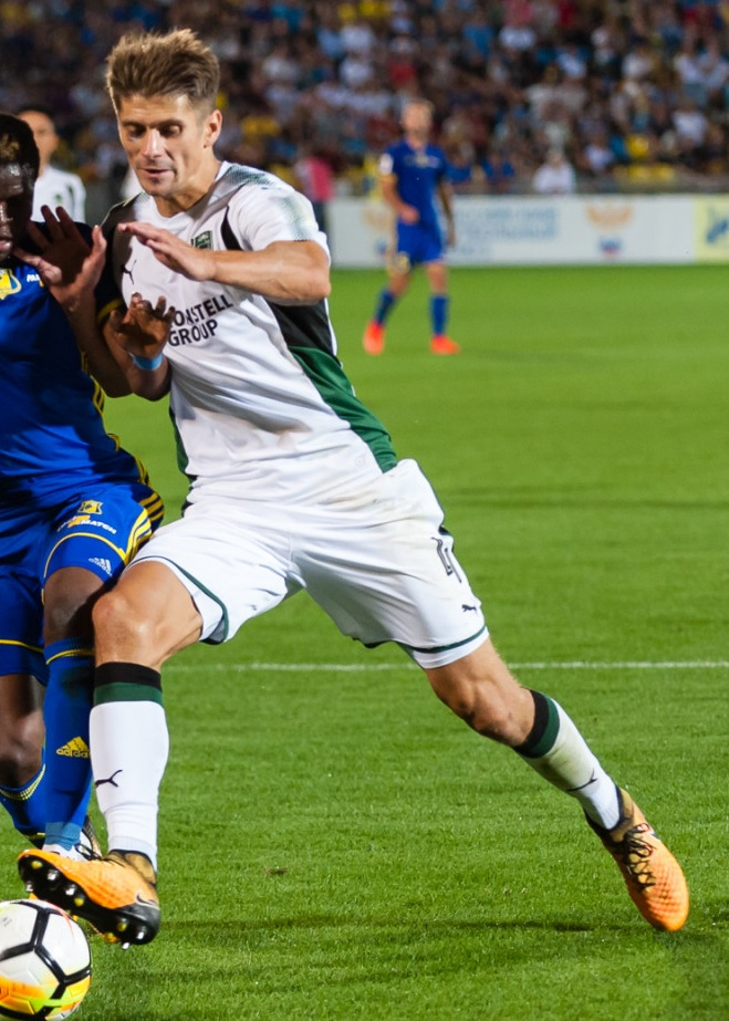 Alyaksandr Martynovich with FC Krasnodar in a game against FC Rostov.